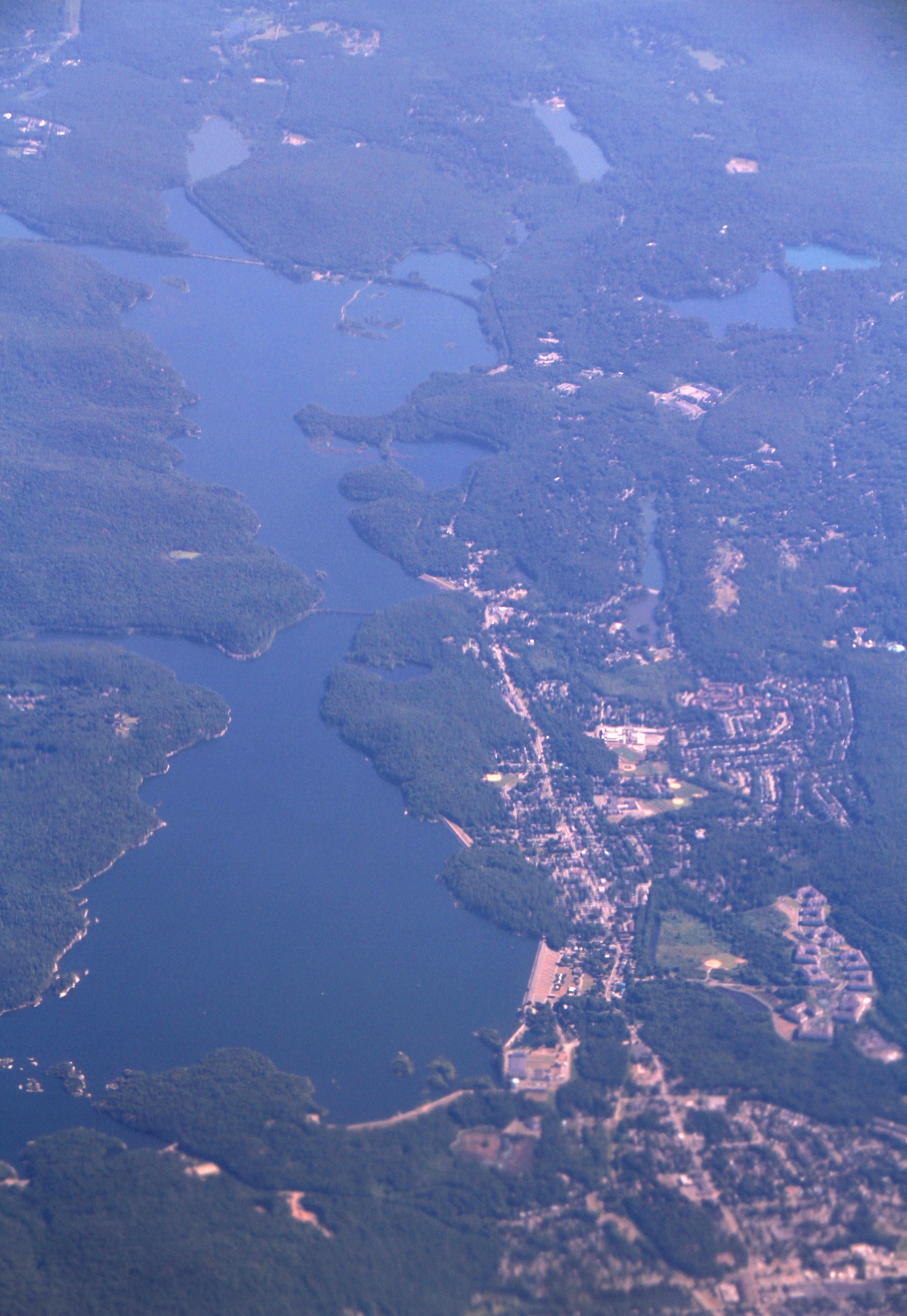 Aerial view of Wanaque and Wanaque Reservoir, in Passaic County, upstate New Jersey. This district is part of the NJ Highland Preseravtion Area.